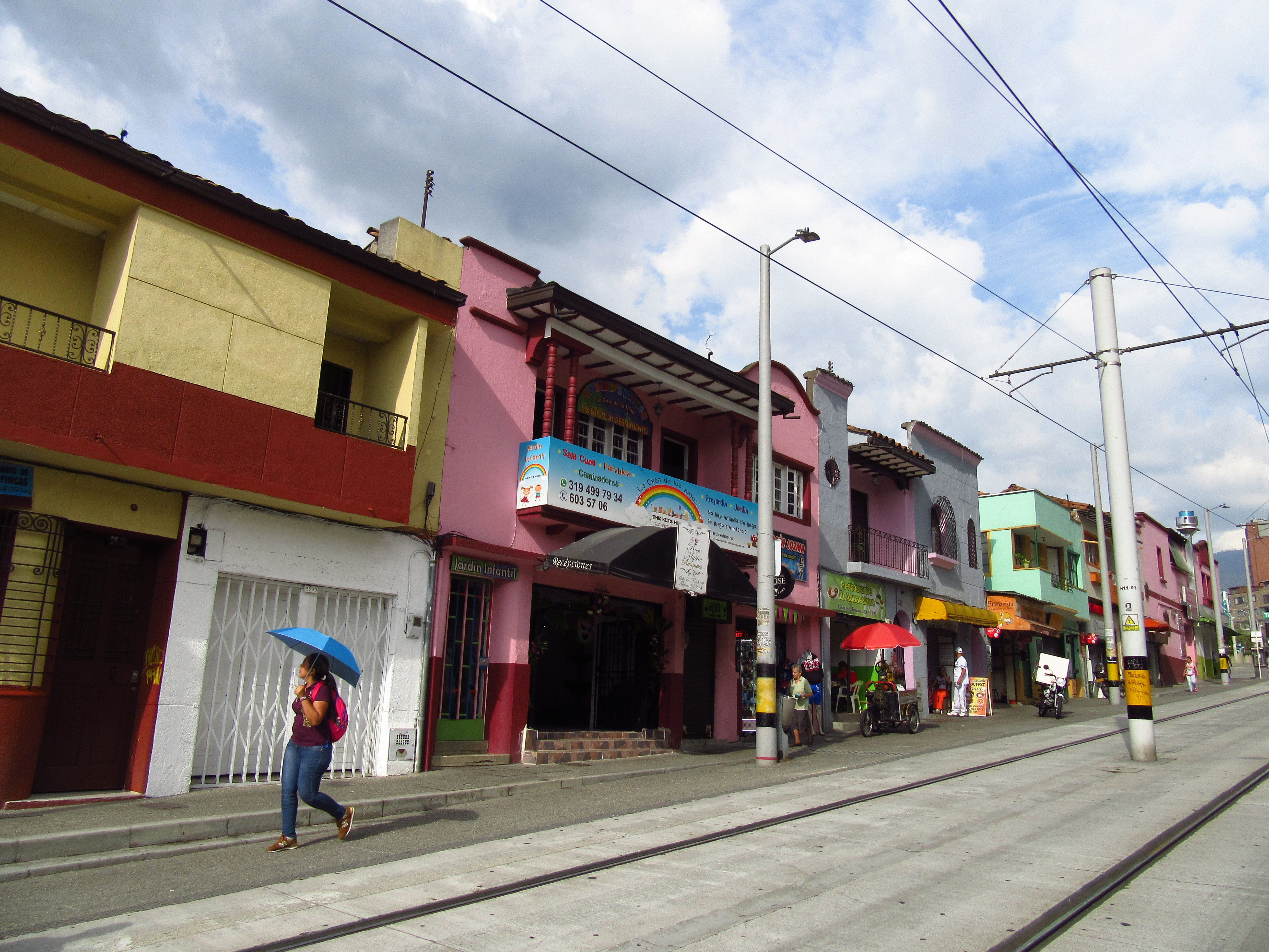 Medellín